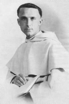 Reginald Garrigou-Lagrange O.P. (France 1877 - Rome 1964)